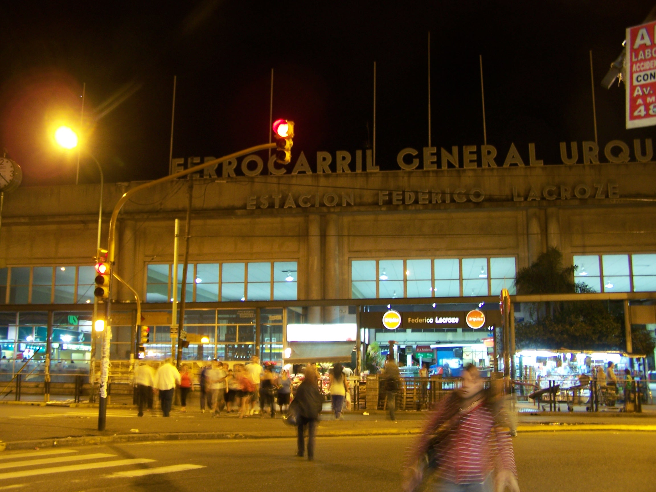 Federico Lacroze railway station, Urquiza line trains depart from here to General Lemos station in suburban San Miguel, and twice a week there is a train to Posadas passing through Entre Ríos, Corrientes and Misiones obviously.